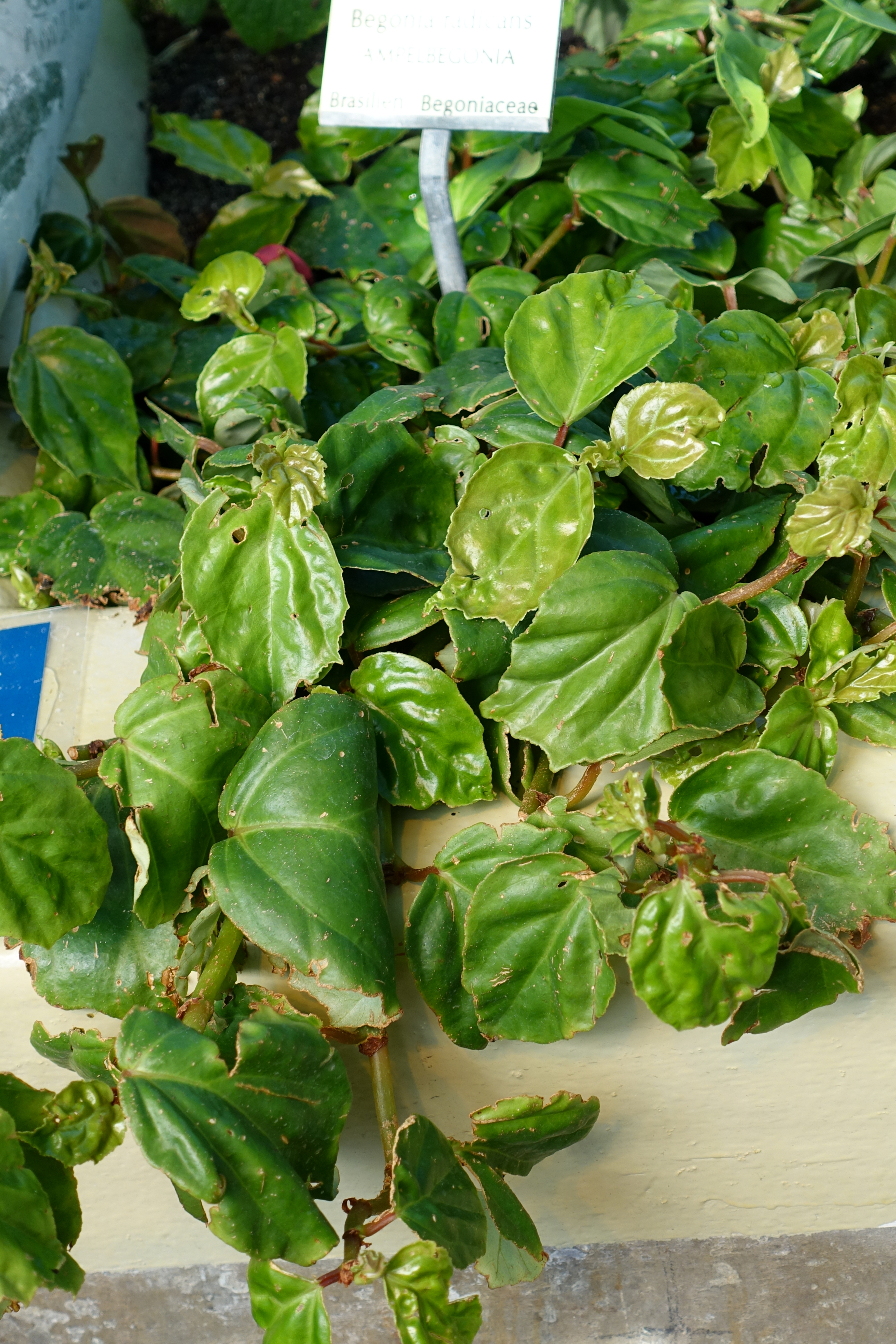 Botanical specimen in the Victoriahuset, Bergianska trädgården - Stockholm, Sweden.